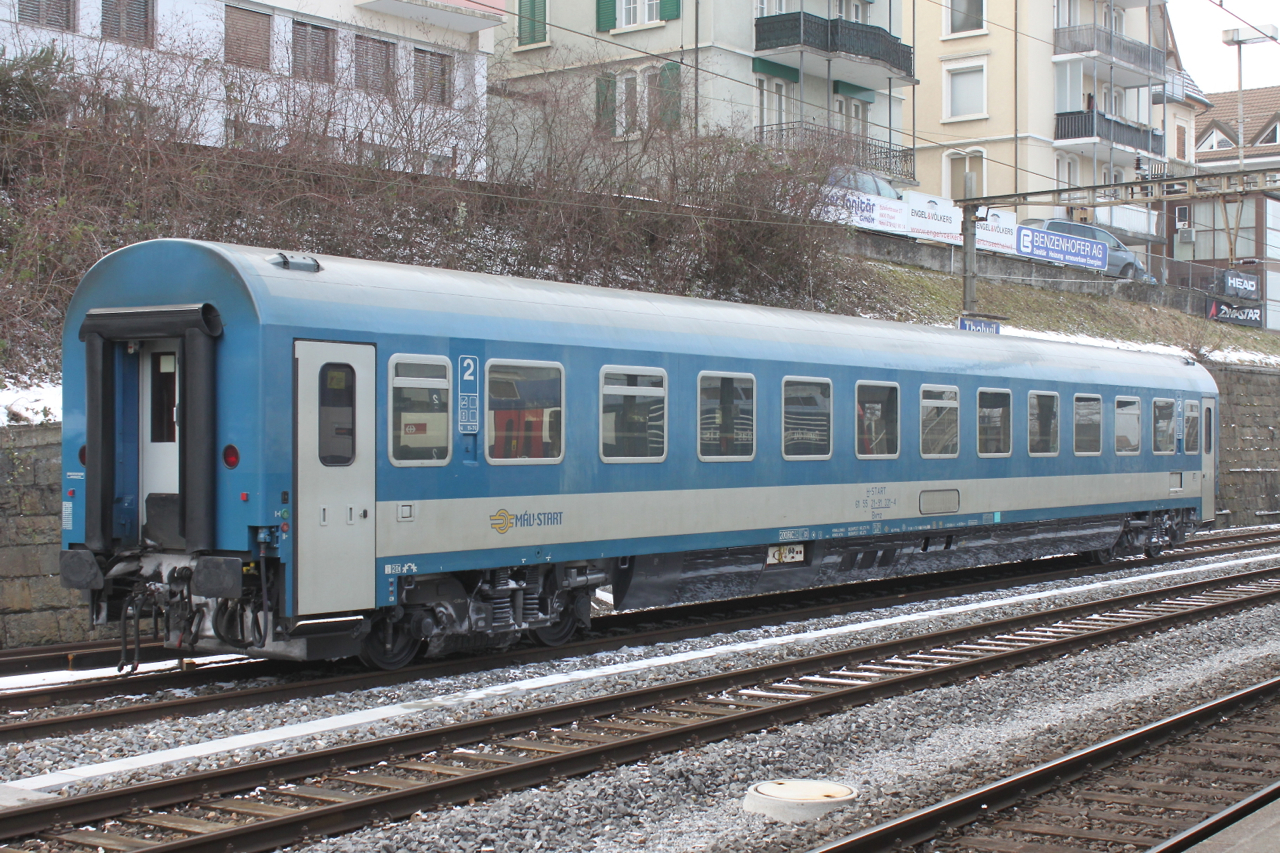 MAV-START Bvmz 61 55 21-91 331-4 at Thalwil train station.